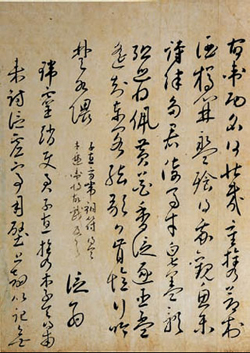 one poet of Bohanjae Shin Suk-ju